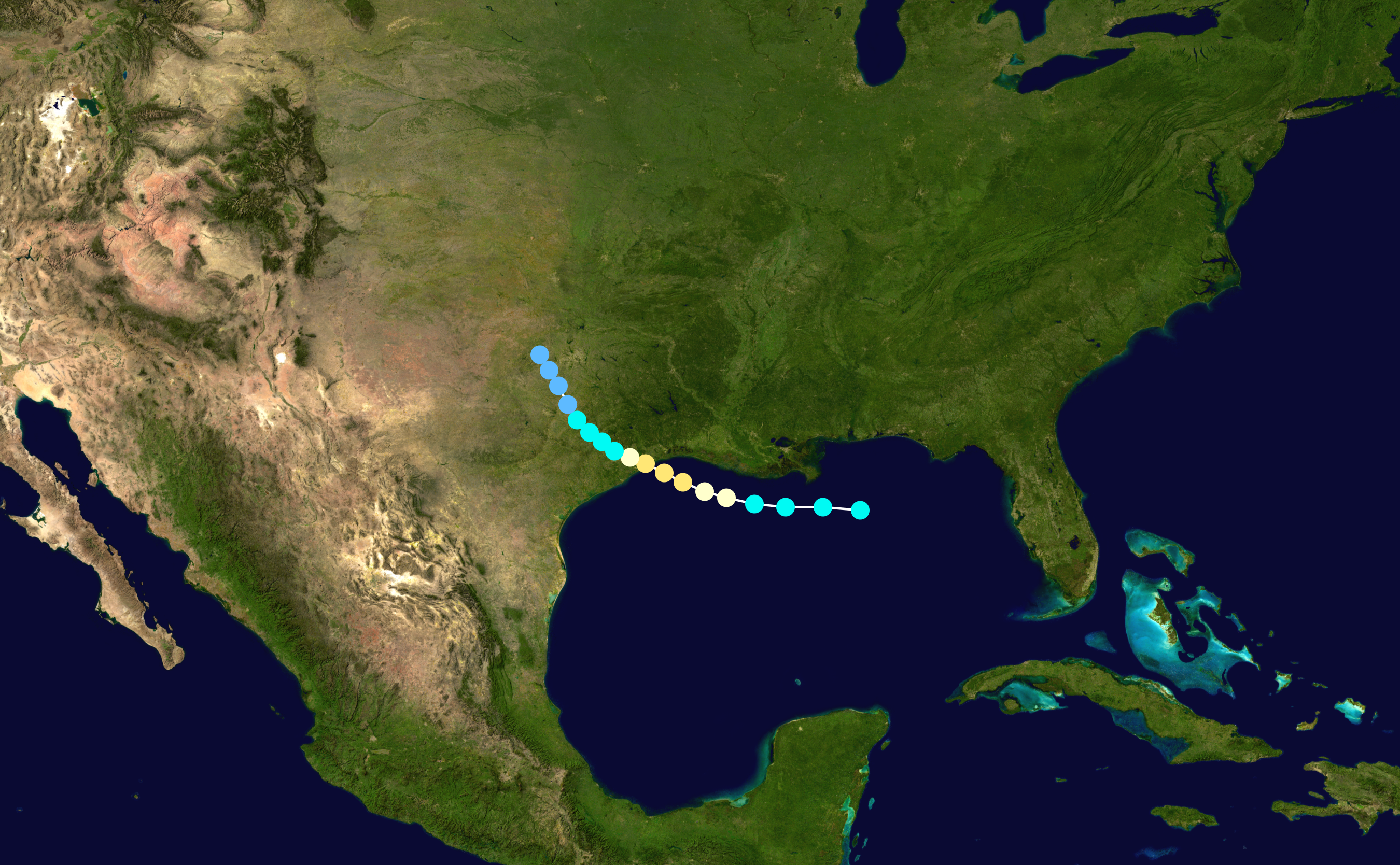 1943 Surprise hurricane track. Uses the color scheme from the Saffir-Simpson Hurricane Scale.